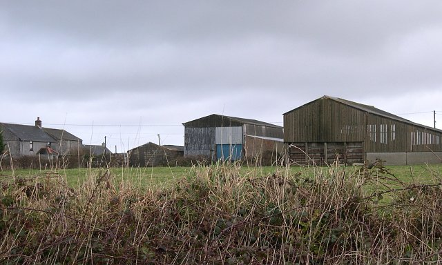 Farm Buildings, Radnor. On the outskirsts of Redruth